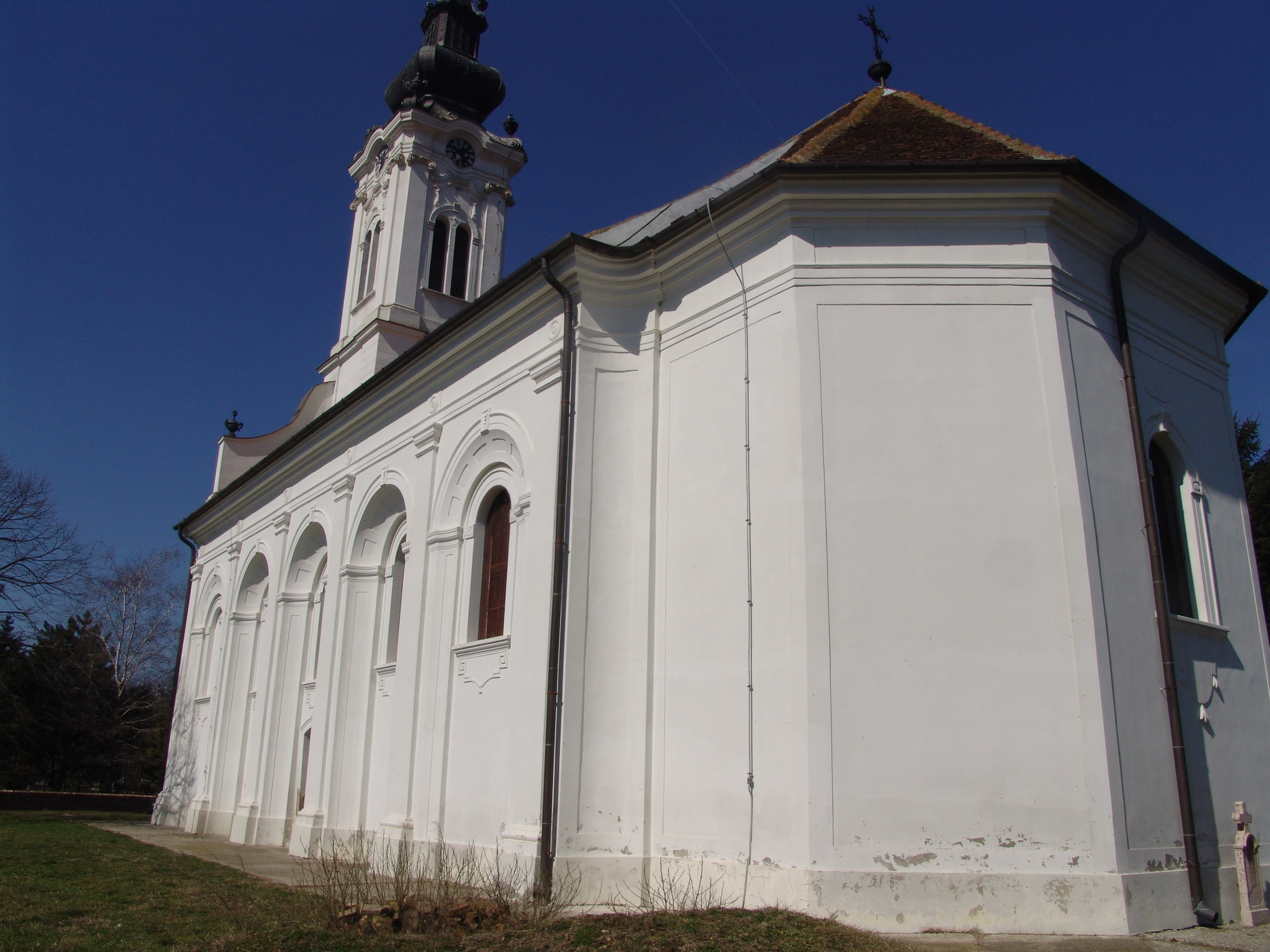 Serbian Orthodox church of Transfiguration of the Lord in Elemir - southeast